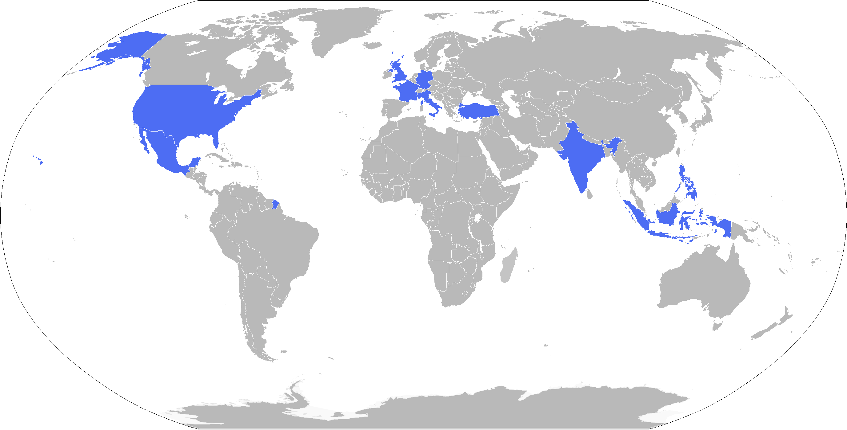 Top 10 of the countries with more users in Facebook